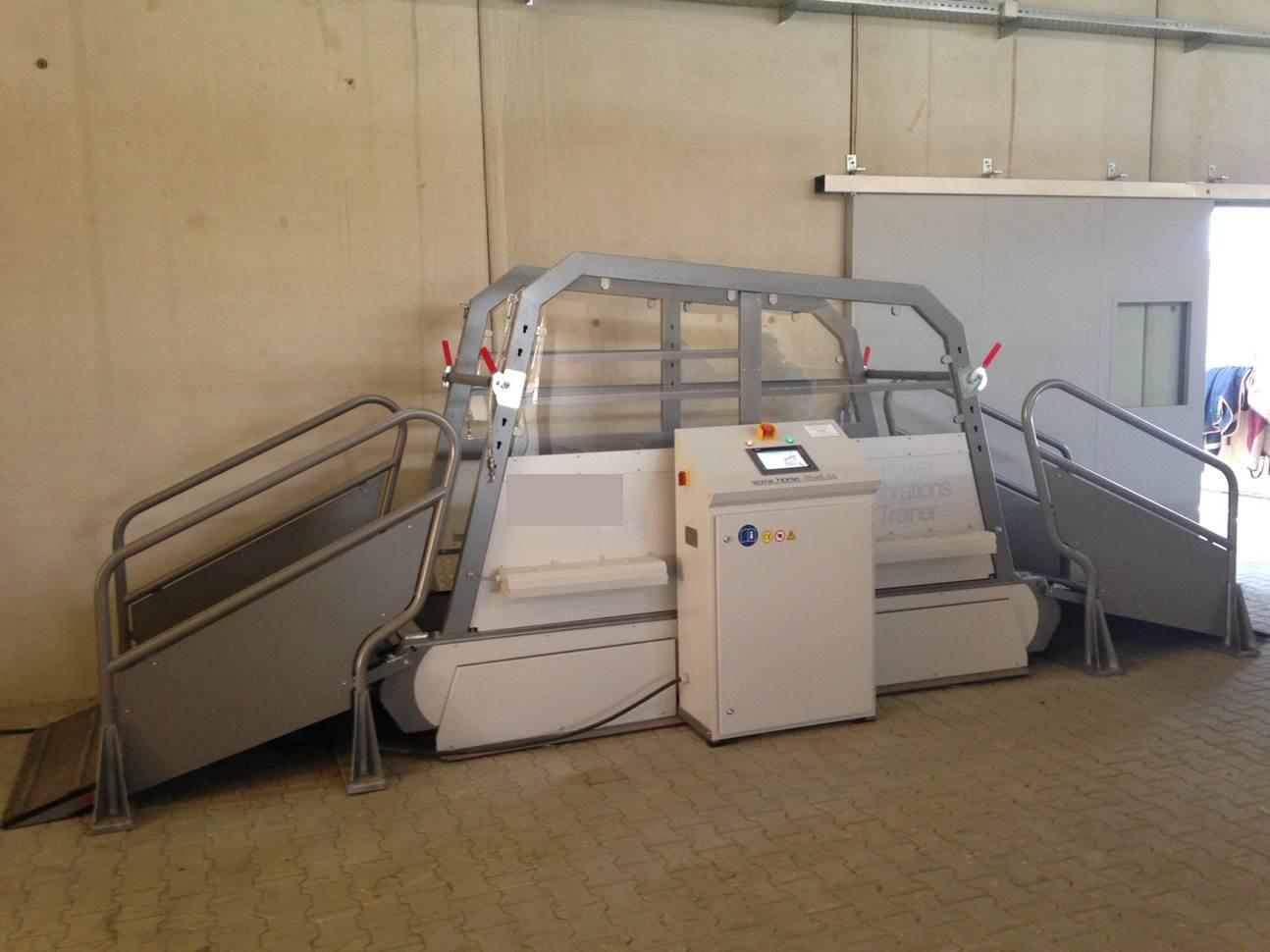 Horse walker, horse treatmile